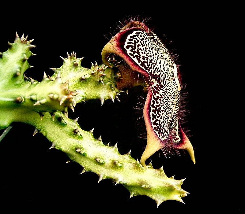 Edithcolea grandis var. baylissiana